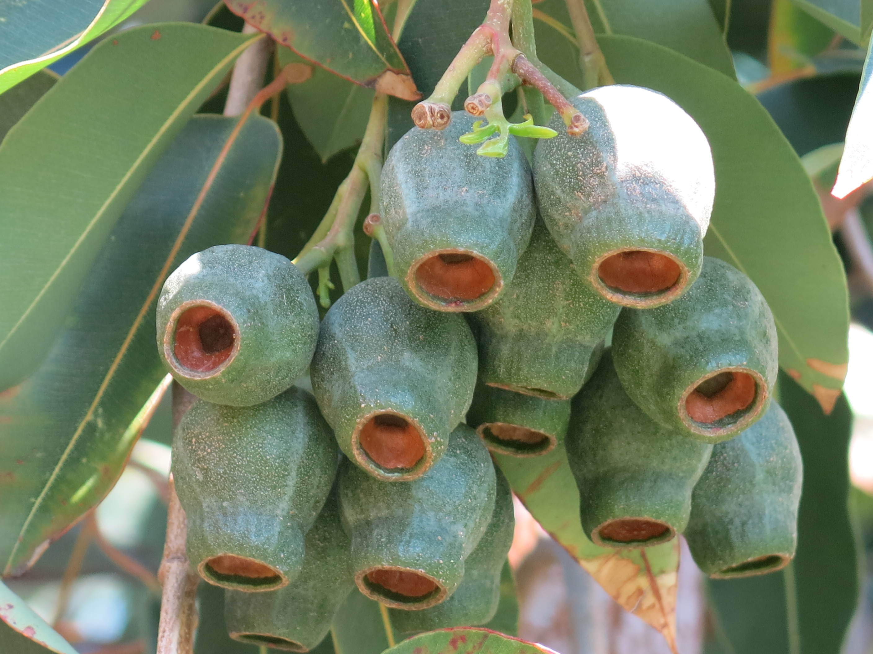 Fruits of Corymbia calophylla in parc Gonzalez in Bormes-les-Mimosas (Var, France). Plant identified by its botanic label.